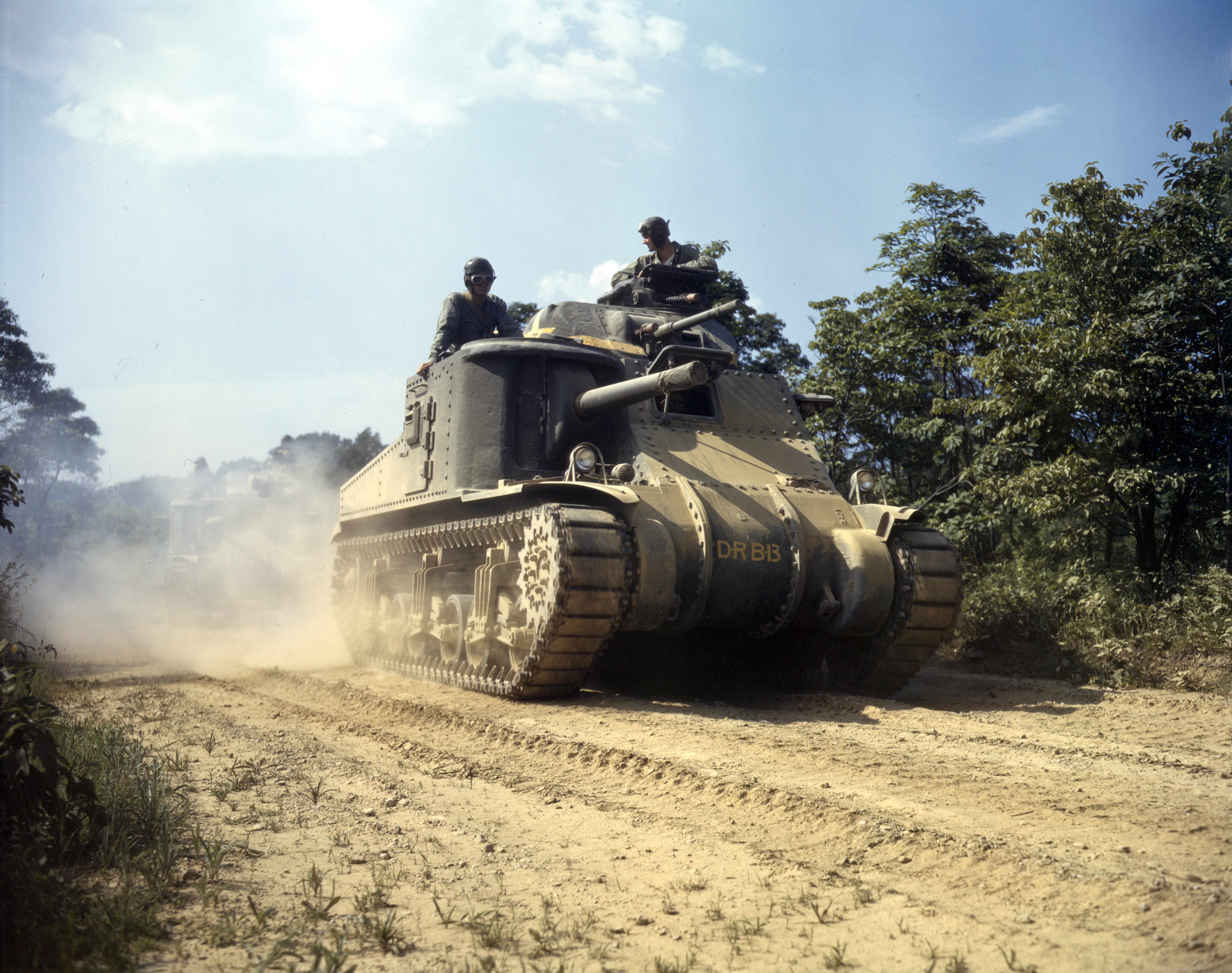 Palmer, Alfred T.,, photographer. M-3 tanks in action, Ft. Knox., Ky. 1942 June 1 transparency : color. Notes: Title from FSA or OWI agency caption. Transfer from U.S. Office of War Information, 1944. Subjects: United States--Army US Army Armor Center World War, 1939-1945 Armories Tanks (Military science) Roads Military training United States--Kentucky--Fort Knox Format: Transparencies--Color Repository: Library of Congress, Prints and Photographs Division, Washington, D.C. 20540 USA, Part Of: Farm Security Administration - Office of War Information Collection 12002-34 (DLC) 93845501 General information about the FSA/OWI Color Photographs is available at Persistent URL: Call Number: LC-USW36-186